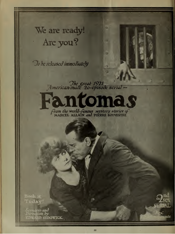 Advertisement for the film serial Fantômas (1920) directed by Edward Sedgwick, with Edward Roseman and Edna Murphy.